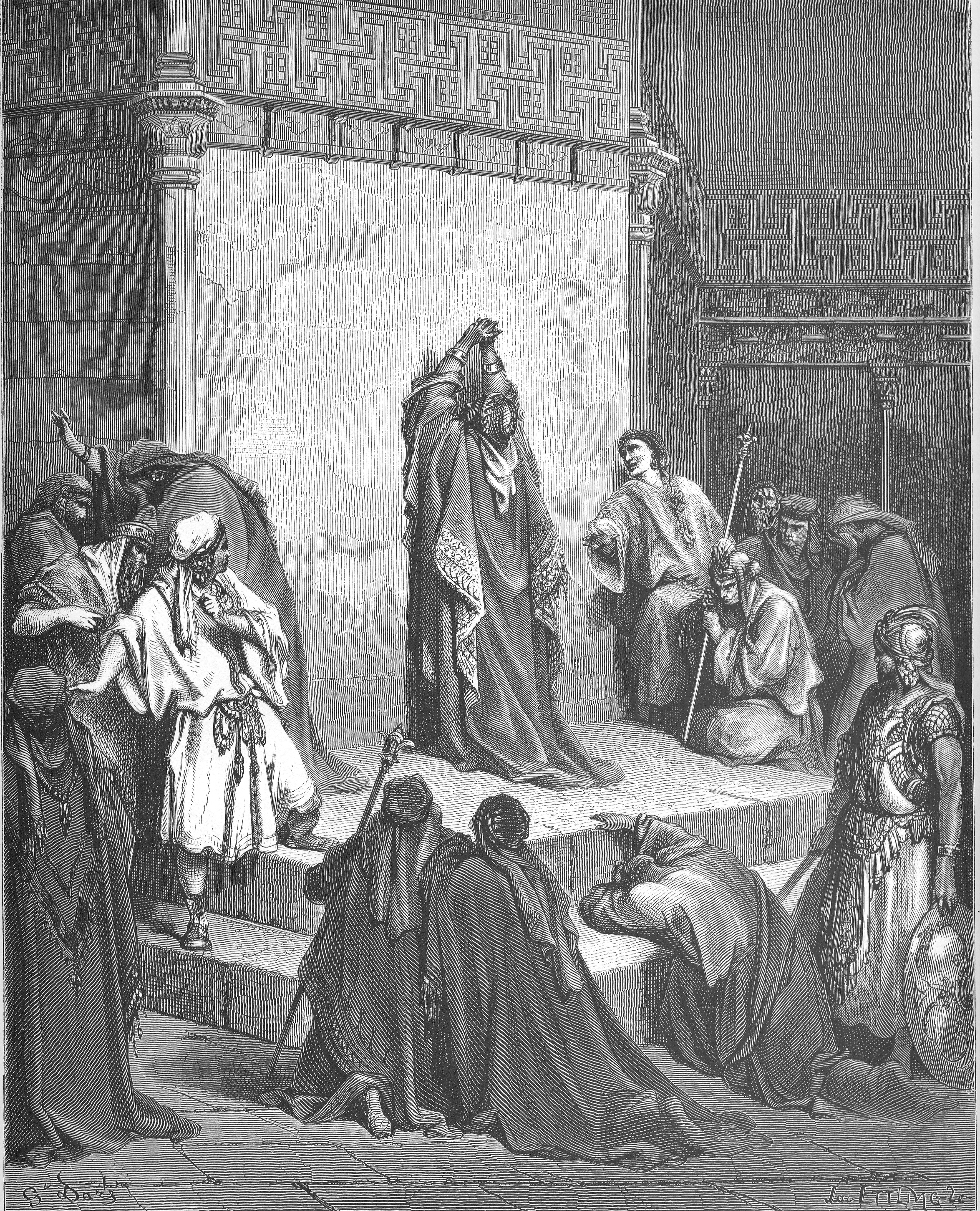 David Mourns the Death of Absalom (2Sam. 18:33)